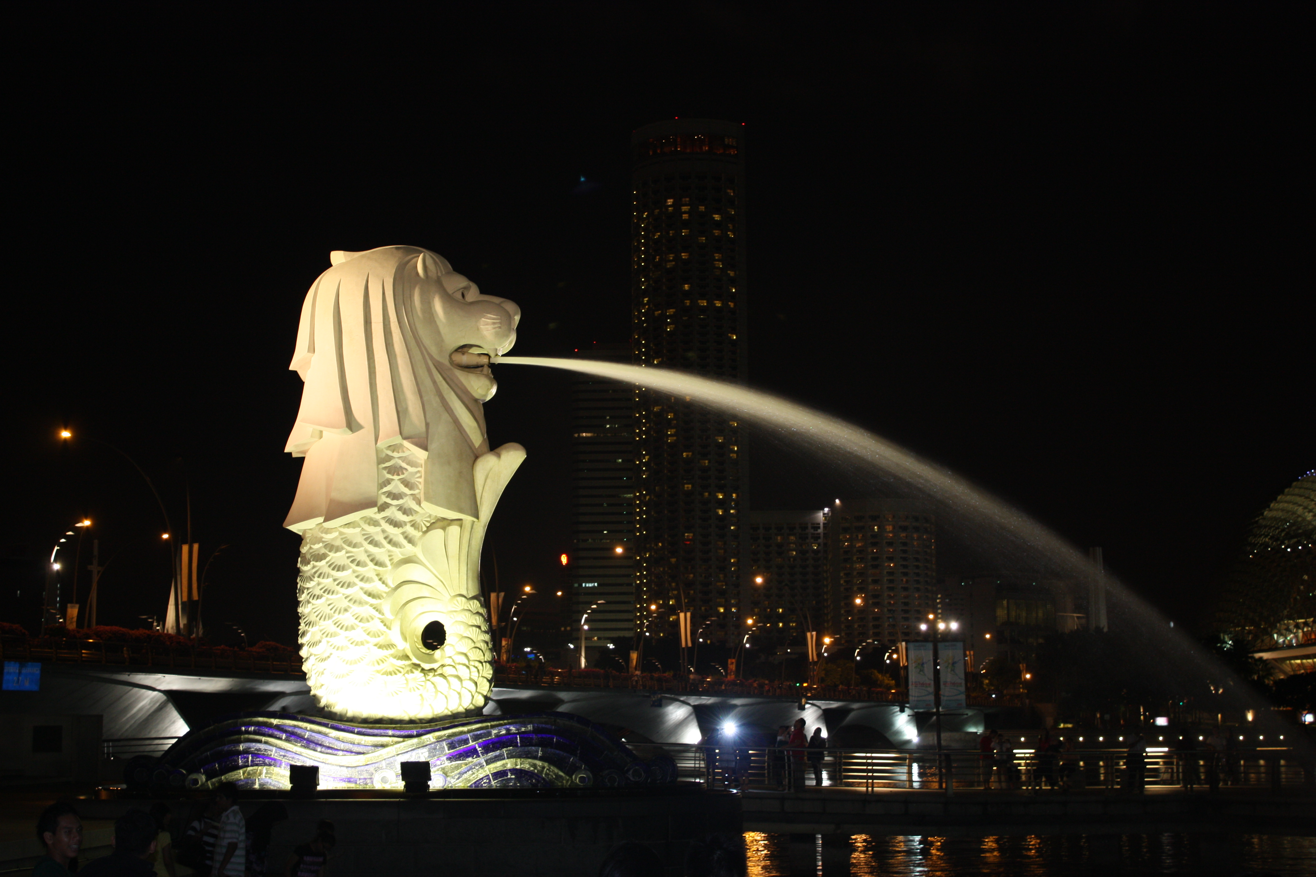 Photo of the Merlion in Merlion Park Singapore, taken by Wolfgang Holzem /